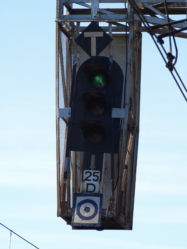 ABS semaphore by track of linie no. 202, with W18 and W21 signs.